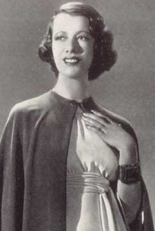 Publicity photo of Lily Pons for Argentinean Magazine. (Printed in USA)